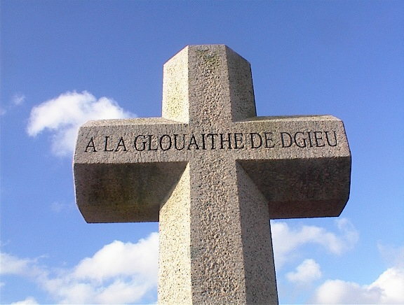 Millennium cross erected 2000 in Saint Helier, Jersey, with inscription in Jèrriais (English translation: To the glory of God) Image created by User:Man vyi on 1st May 2005